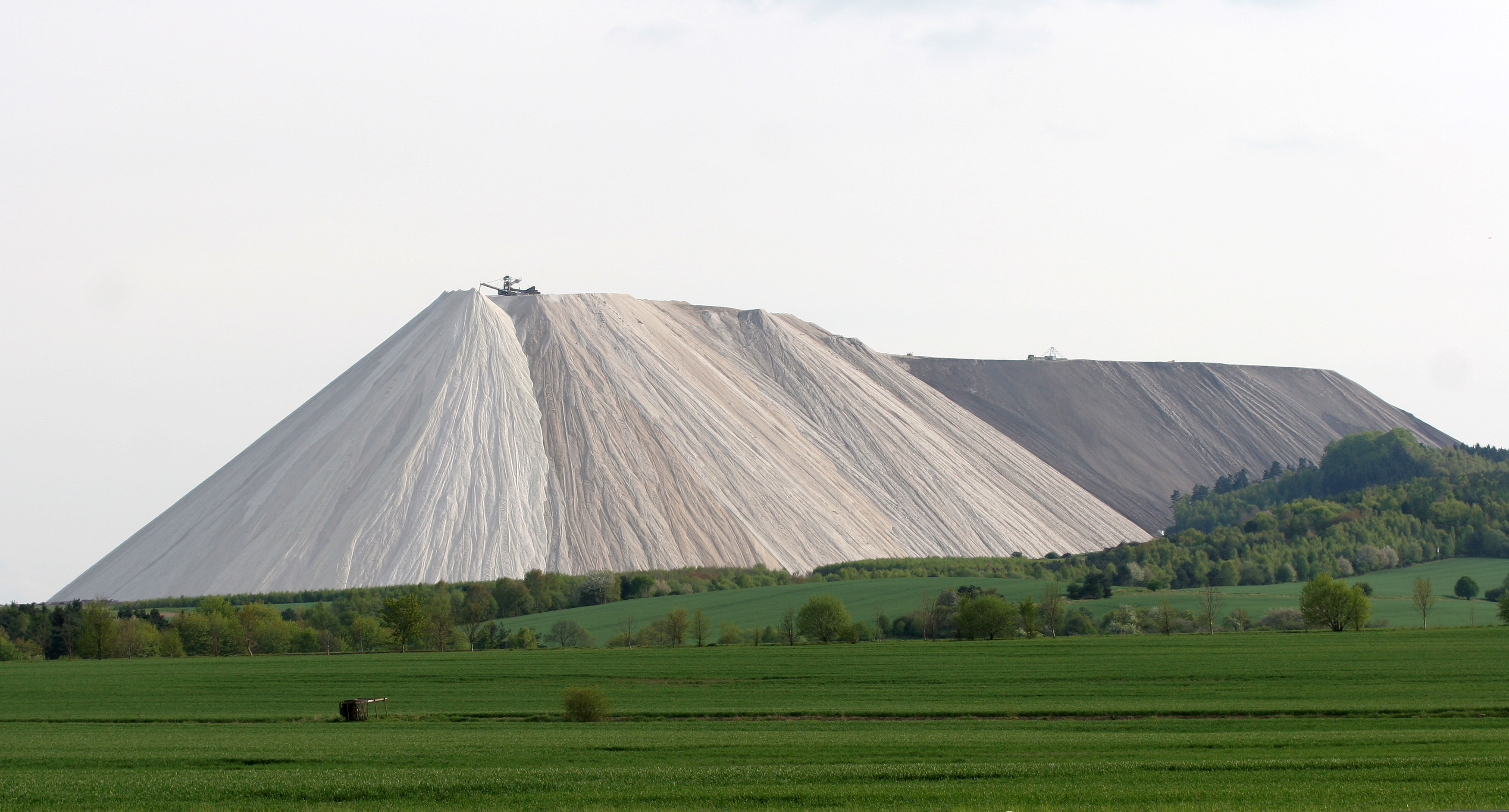 The Monte Kali.